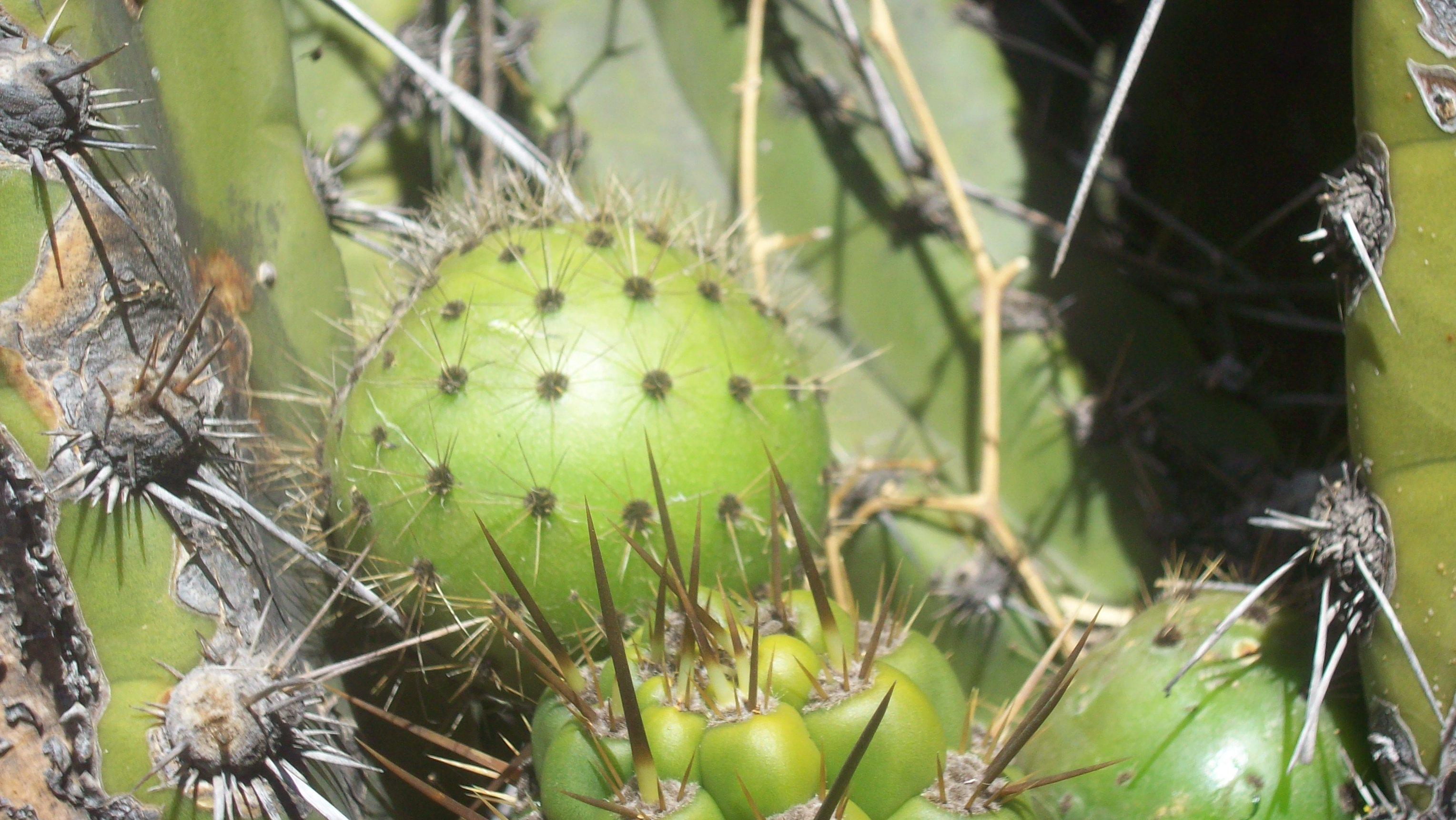 Sanky: andean fruit